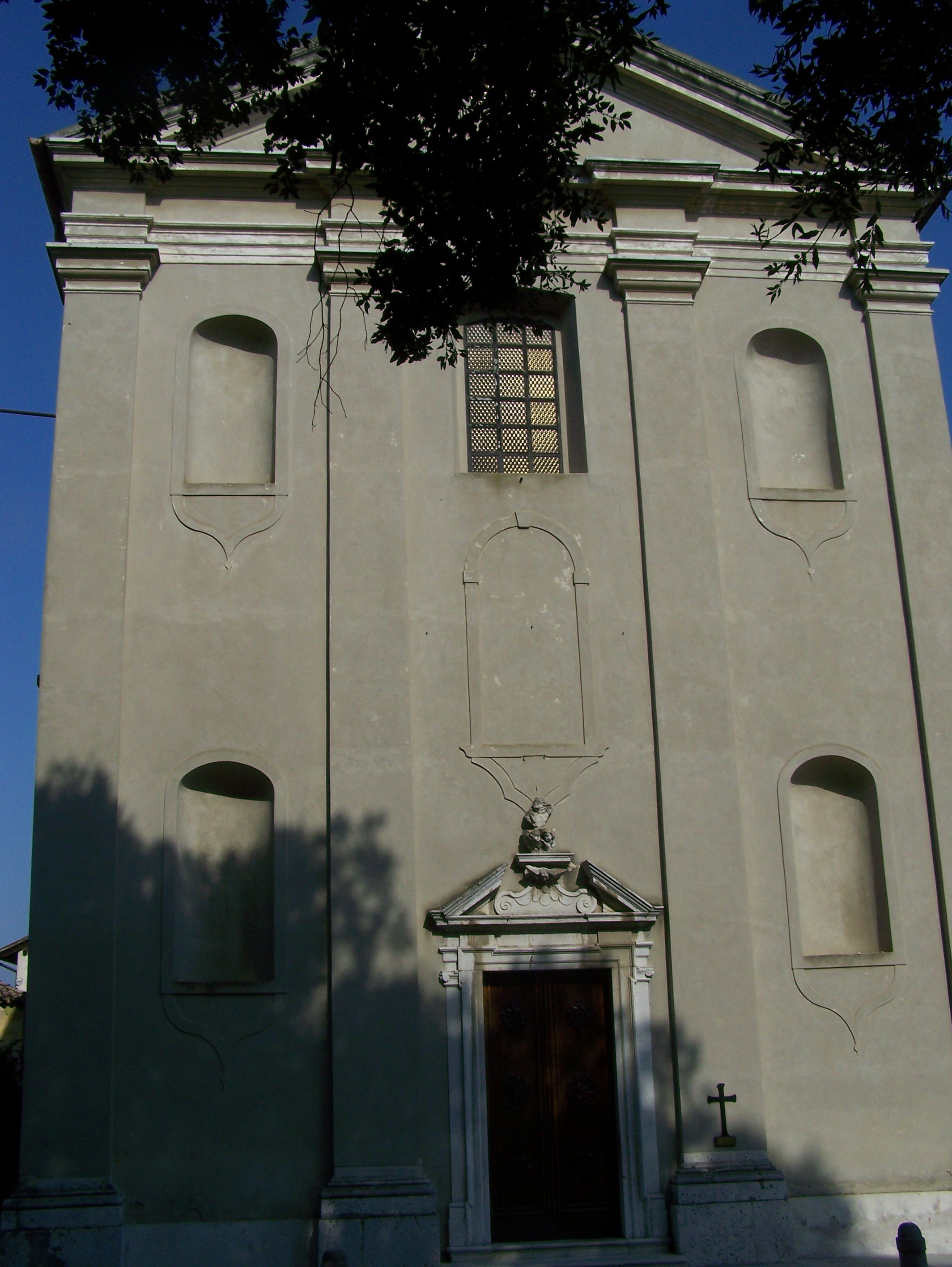 The church in Campolongo al Torre, Friuli, Italy. Furlan: La glesie di Cjamplunc, te Basse. E fo consacrade tal 1736.